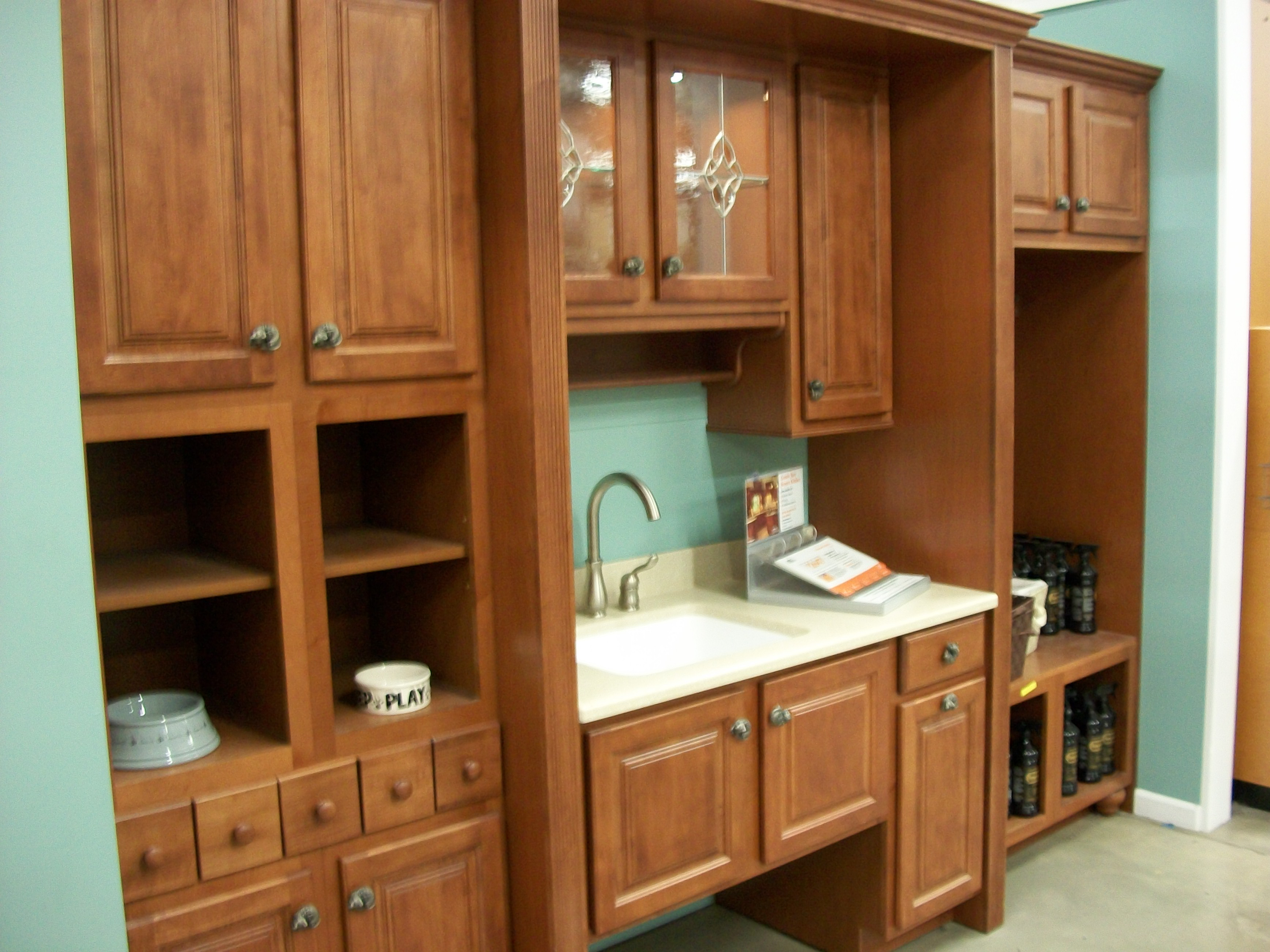 Kitchen cabinets are sold as integrated sets with bottoms and tops featuring matching styles for aesthetic appeal. Picture for use in Wikipedia article on kitchen cabinets.